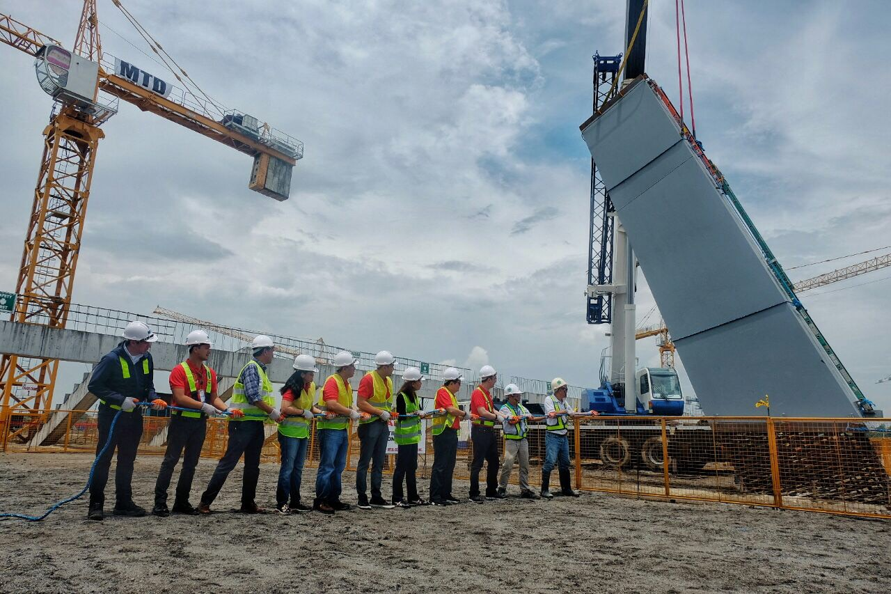 Philippine Sea Games Organizing Committee (PHISGOC) Chairman Alan Peter Cayetano led the installation of composite columns at the New Clark City Athletic Stadium during the committee’s site visit on Saturday, July 7. The Athletic Stadium is part of the world-class sports facilities being built by AlloyMTD and the Bases Conversion and Development Authority (BCDA) for the country’s hosting of the 2019 Southeast Asian Games. Clark will serve as the main hub of the 2019 SEA Games with the Aquatics and Athletics event to be held at the New Clark City.